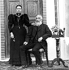 Ernst Hoeltzer and his wife in front of their houes in Isfahan